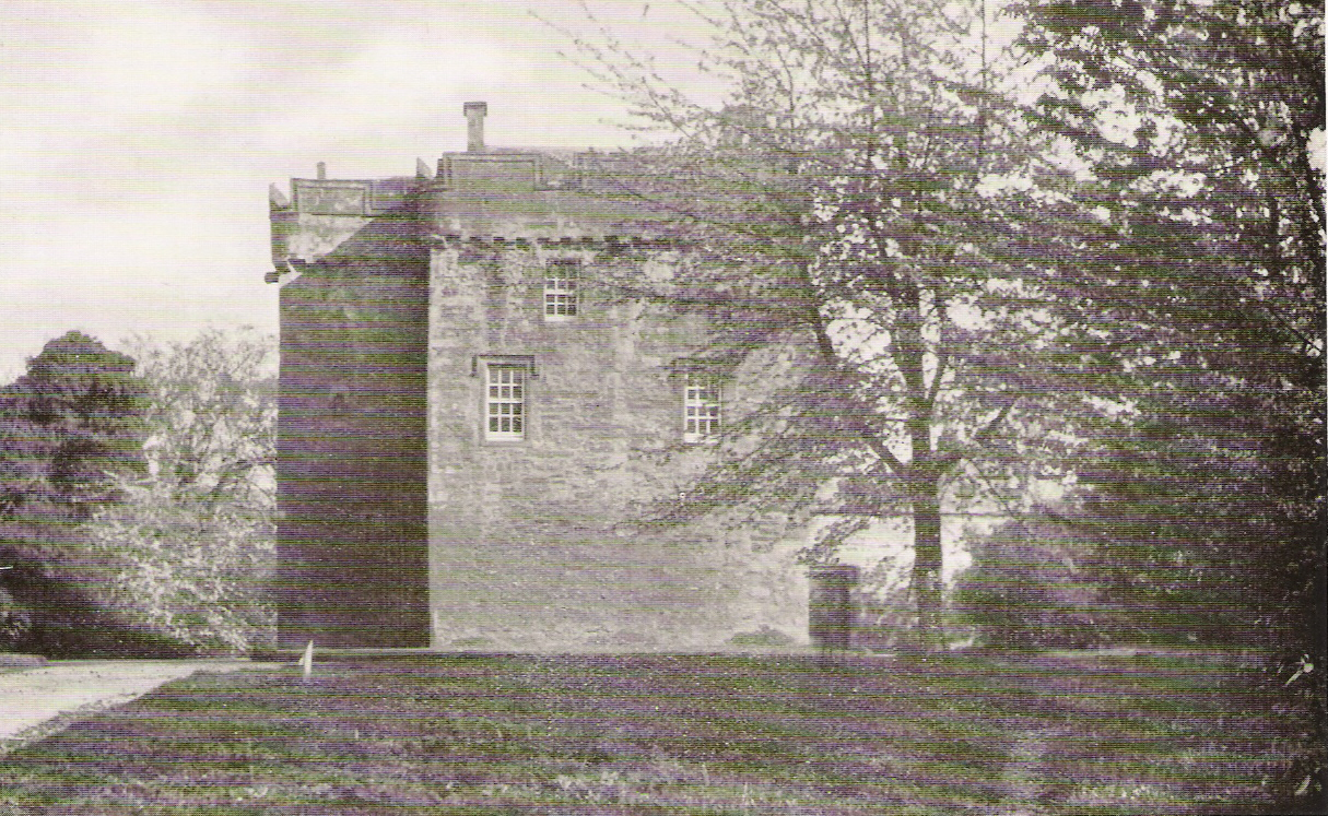 Plate from the book The Seven Ages of an East Lothian Parish - Whittingehame, 1929.